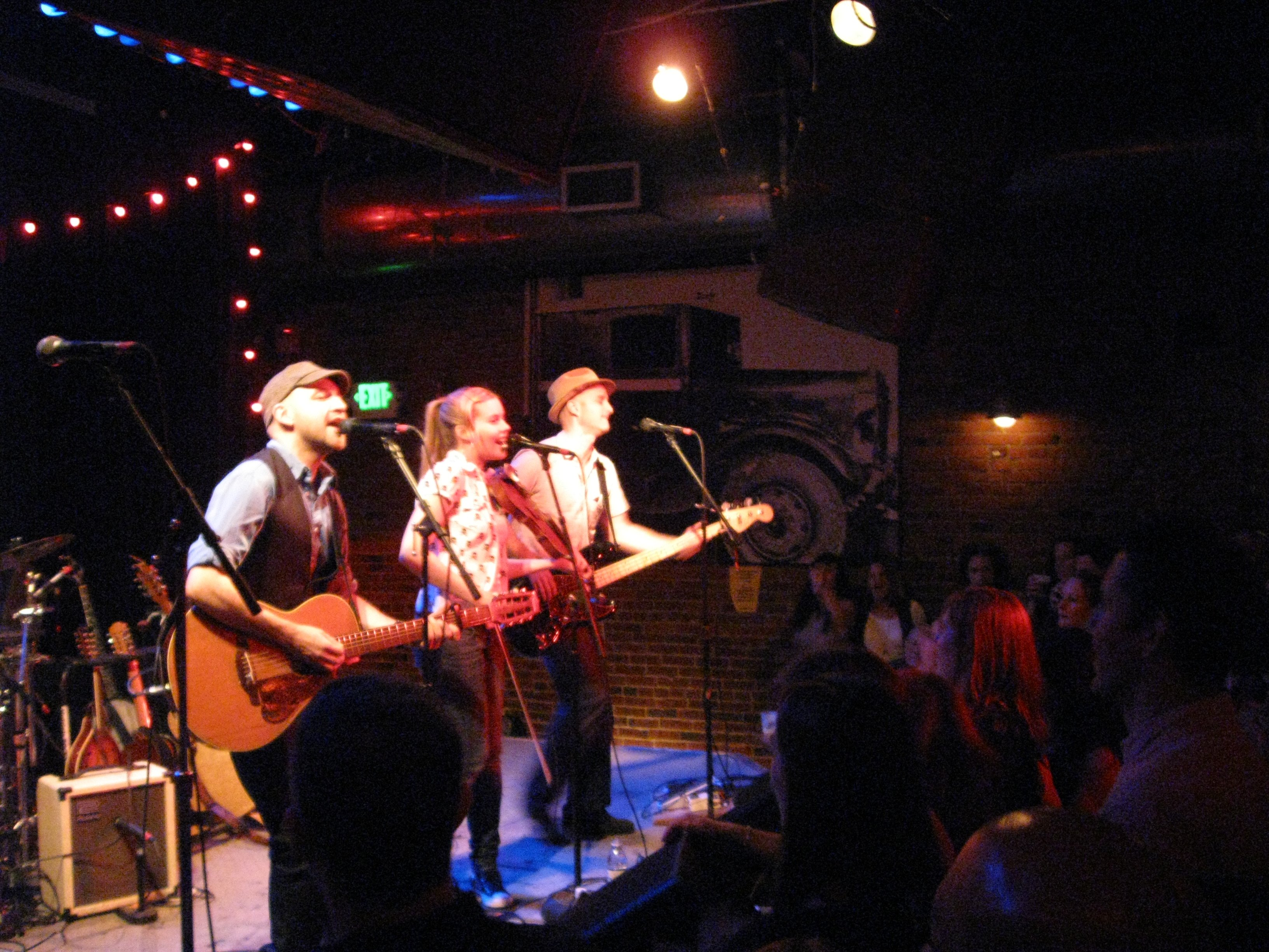 Tom Landa, Kendel Carson, Brad Gillard of The Paperboys Tractor Tavern Seattle 060608